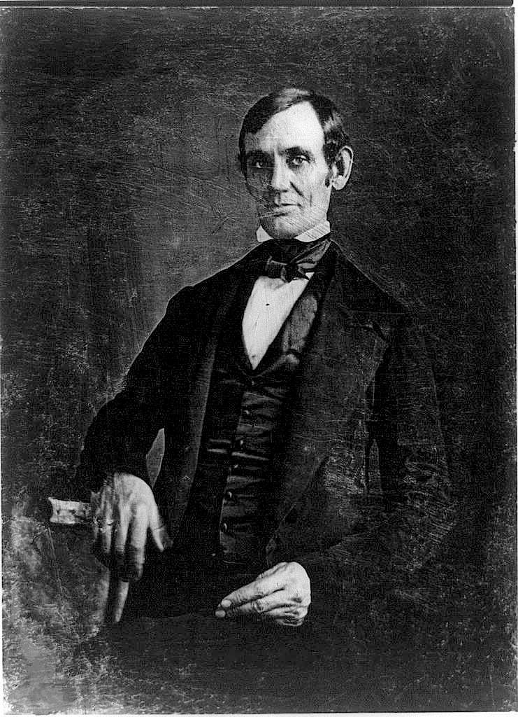 Abraham Lincoln, Congressman-elect from Illinois. Three-quarter length portrait, seated, facing front. Quarter plate